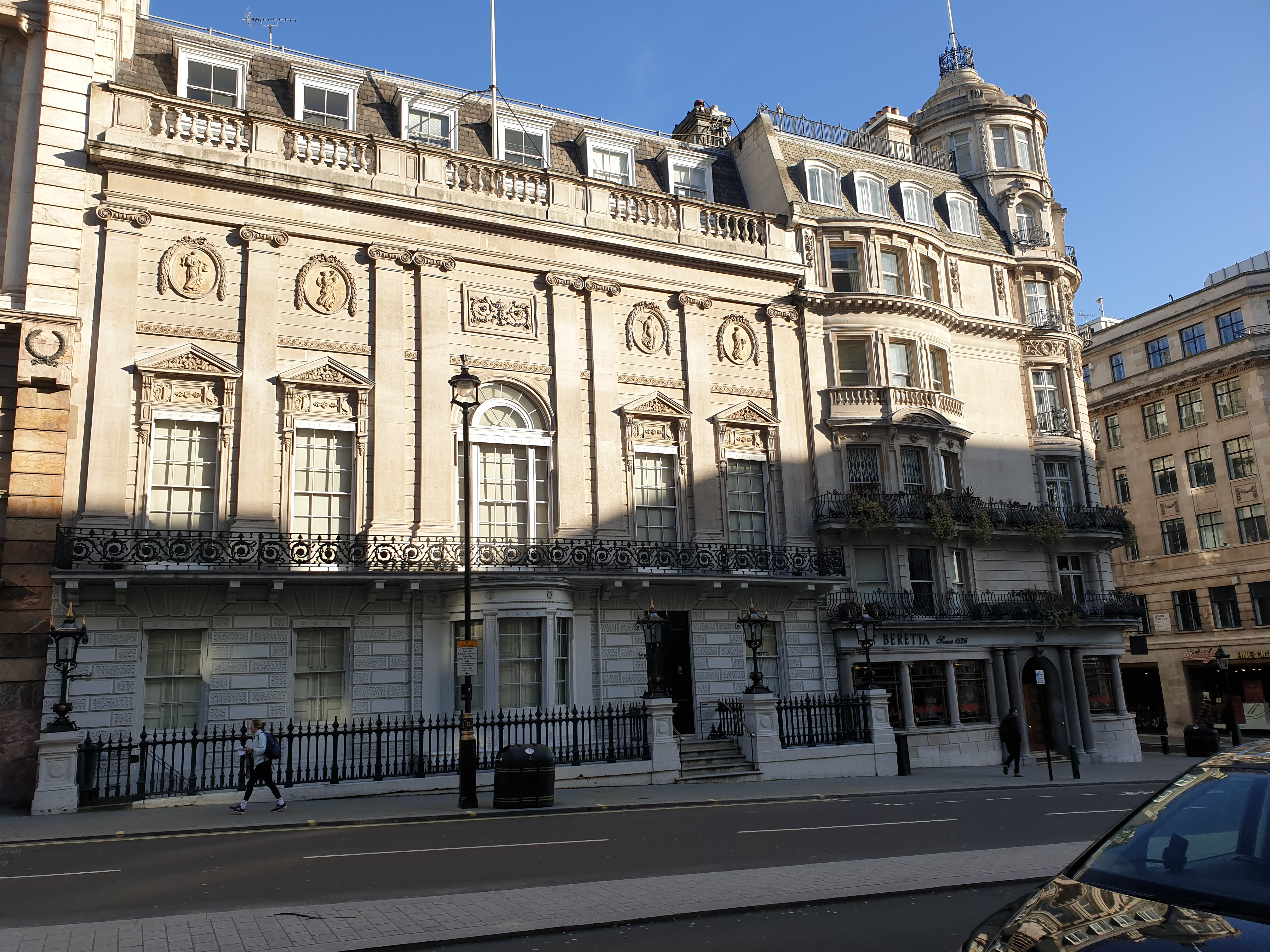 White's, in London's St James's club district